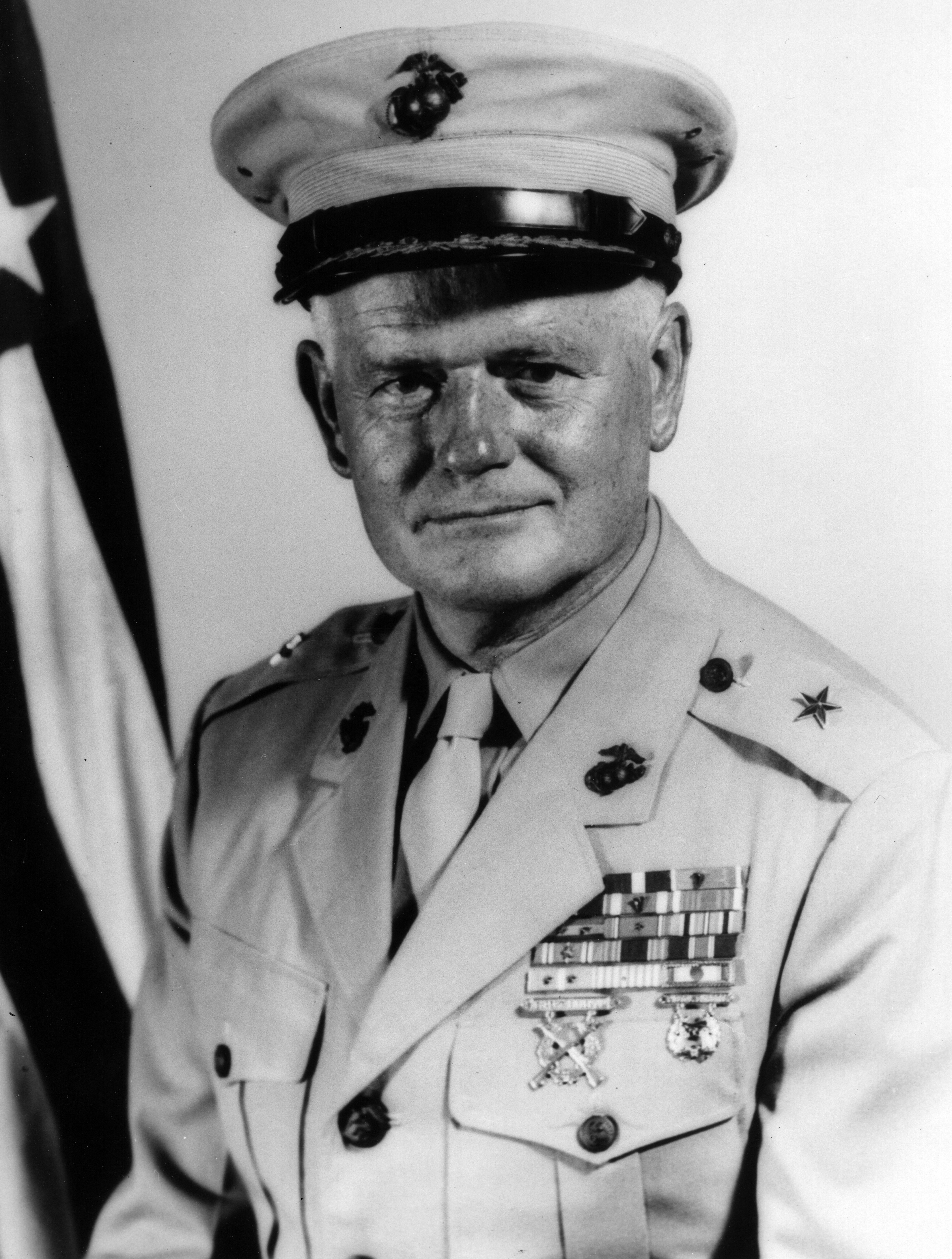 Gordon Donald Gayle (September 13, 1917 – April 21, 2013) was a highly decorated officer in the United States Marine Corps with the rank of Brigadier General and historian. A veteran of World War II and Korea, he distinguished himself as Commanding officer, 2nd Battalion, 5th Marines and received Navy Cross, the United States military's second-highest decoration awarded for valor in combat.